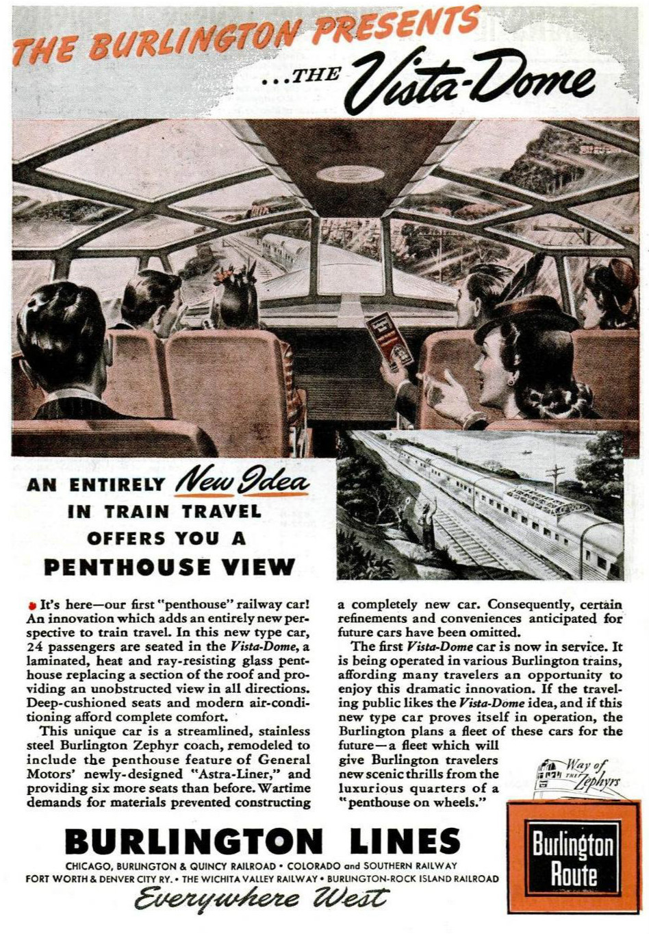 Ad for the Burlington Route announcing its first domed coach car, "Vista Dome". The ad went on to say that the car was in operation and was switched between various Burlington train routes to be able to judge passenger reaction to it. The railroad continued, saying that if the traveling public liked the car, they planned to build a fleet of domed passenger cars and to place them in service regularly on many of their train routes.